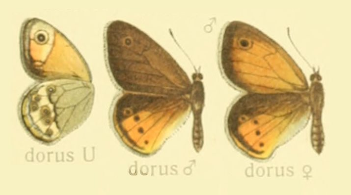 Coenonympha_dorus